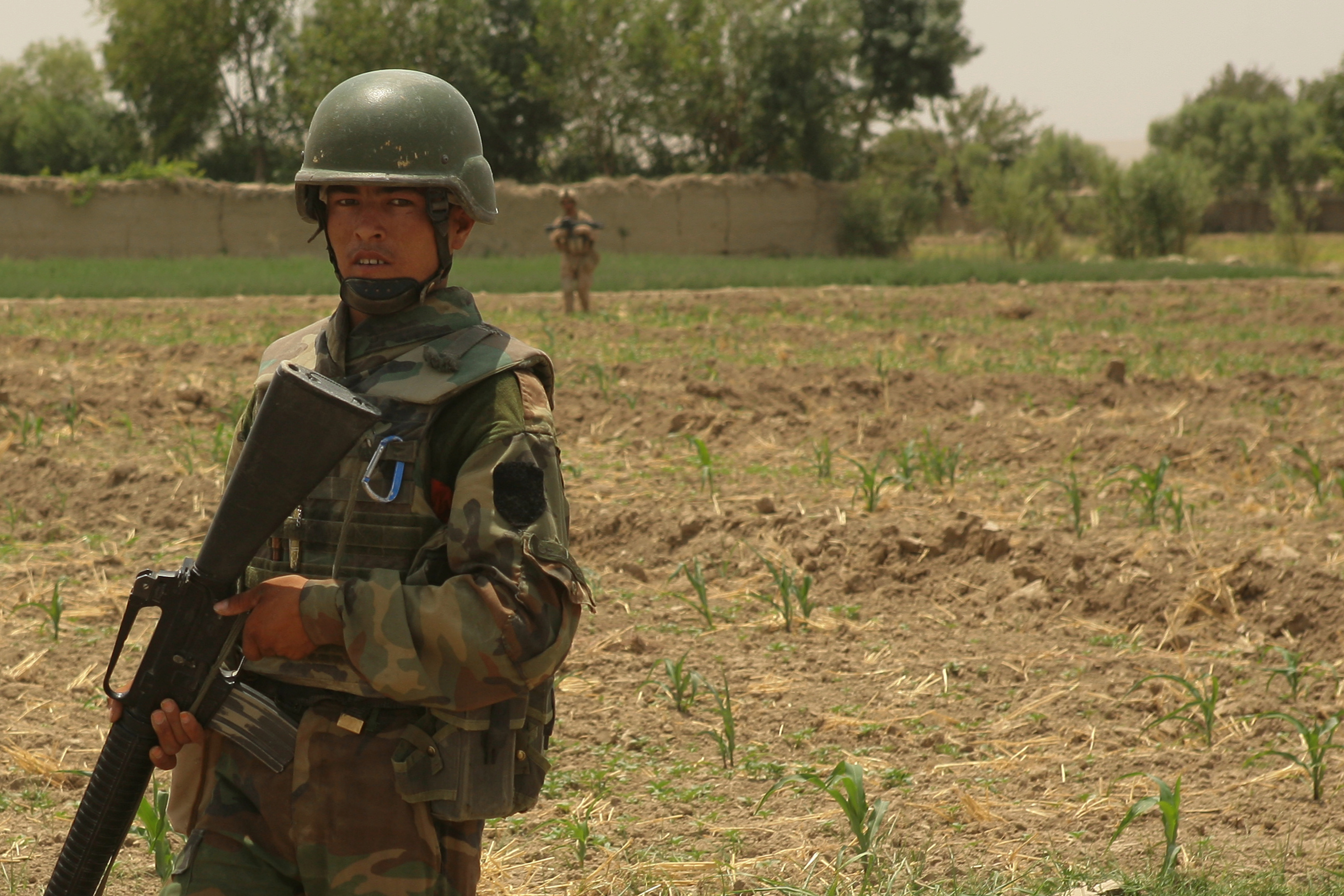 An Afghani soldier patrols a field during an operation in the Helmand province of Afghanistan, July 5, 2009. The Afghan National Army is patrolling the field with U.S. Marines from the 2nd Battalion, 8th Marine Regiment. The 2nd Battalion, 8th Marine Regiment's presence restricts enemy groups’ freedom of movement and helps to restore peace and prosperity to the local populace. The 2nd Battalion, 8th Marine Regiment is part of the ground combat element of Regiment Combat Team 3, 2nd Marine Expeditionary Brigade. VIRIN: 090705-M-6159T-021